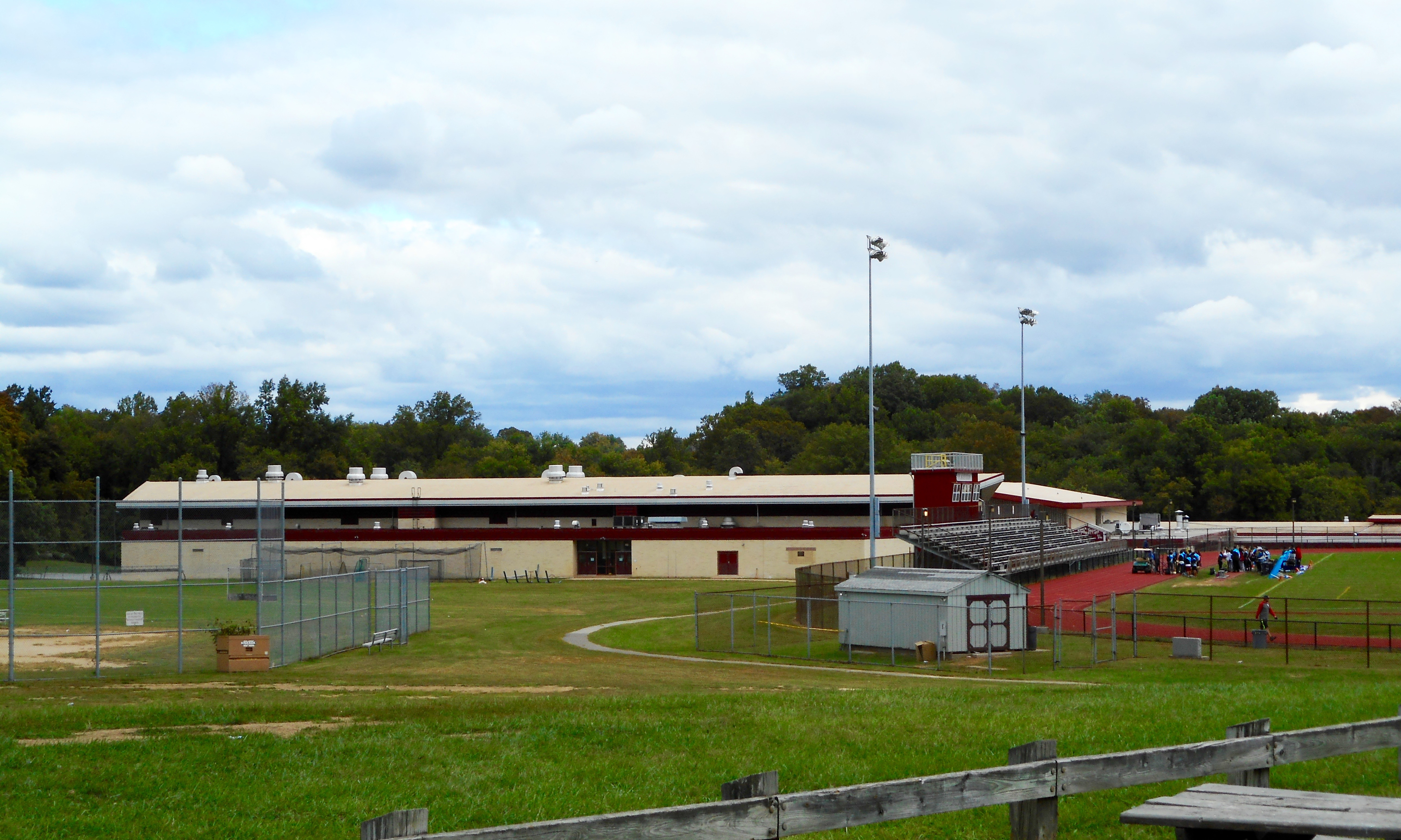 Chichester High School in Bothwyn, Upper Chihester Township, Delaware County, Pennsylvania